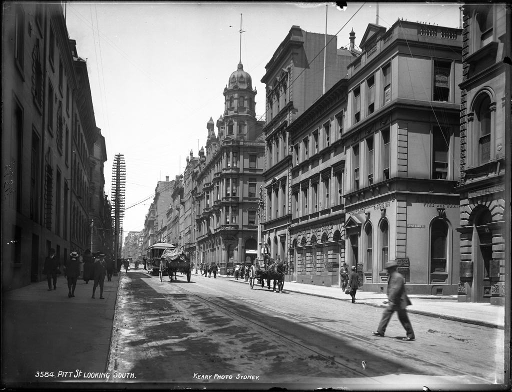 'Sydney City' Pictures from The Powerhouse Museum This files was posted to Flickr by The Powerhouse Museum (See their website for further information). Many thanks to the Powerhouse Museum for helping release this wonderful material. This tag does not indicate the copyright status of the attached work. A normal copyright tag is still required. See Commons:Licensing for more information.